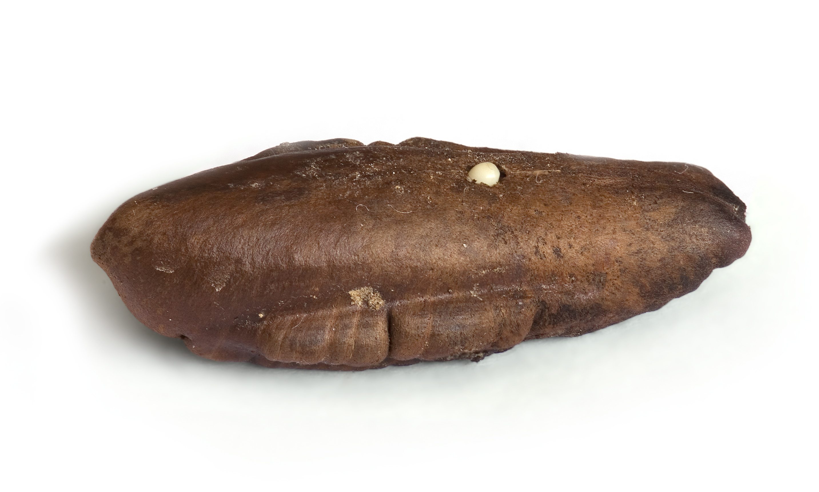 A sprouting date seed (Phoenix dactylifera). See the small white dot in the middle. This is the root comming out.